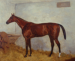 Painting of 1872 Derby winner Cremorne by Harry Hall (1816-1882). Dated 1872.